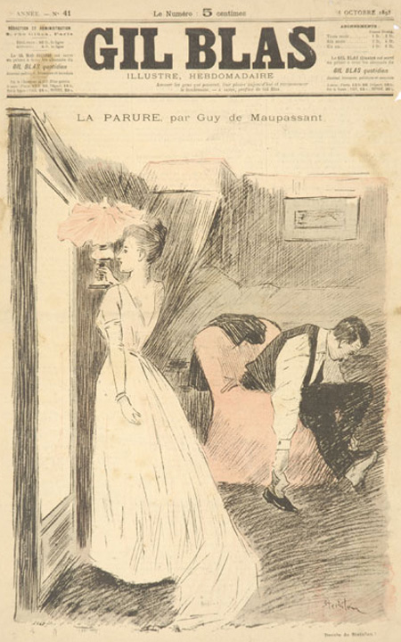 Cover of Gil Blas Illustré, illustration for the short story The Necklace (La Parure) by Guy de Maupassant.